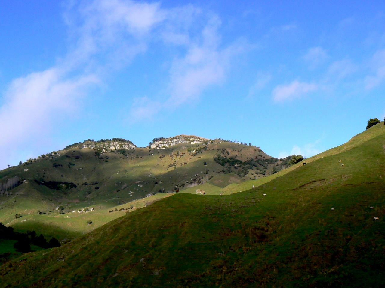 Chevaux sauvages dans les montagnes de Nouvelle-Zélande